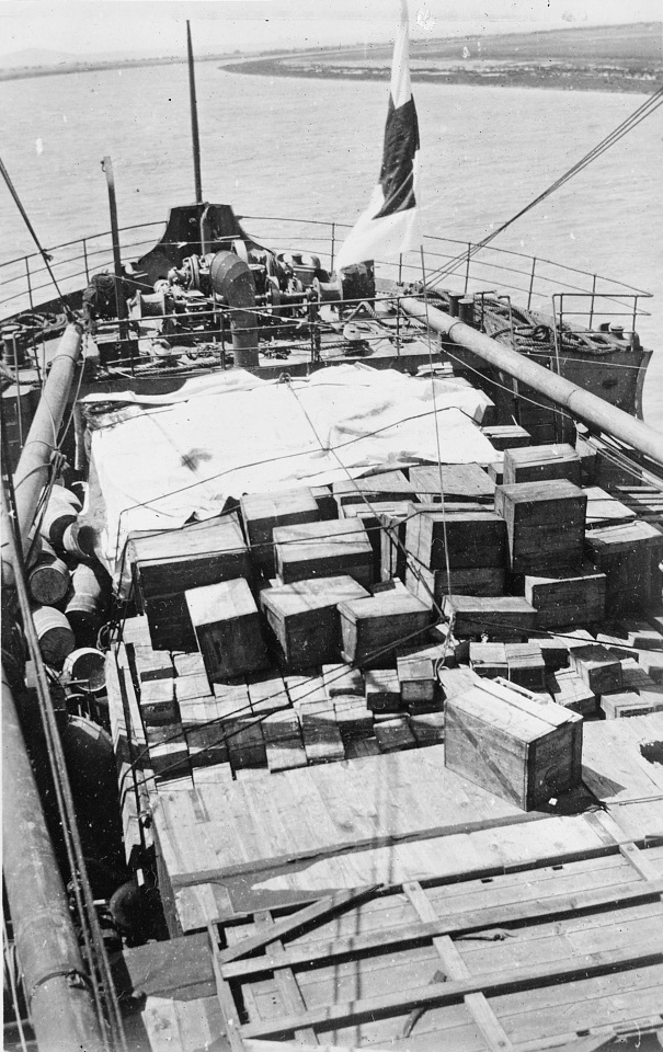 Feeding the Balkans. Steamship Lake Elizabeth, chartered by the American Red Cross to bring thousands of tons of food supplies to Roumania. A large part of the steamship's cargo was loaded from surplus supplies in France and Italy and brought to Galatz on the Danube where it was distributed to all parts of suffering Roumania